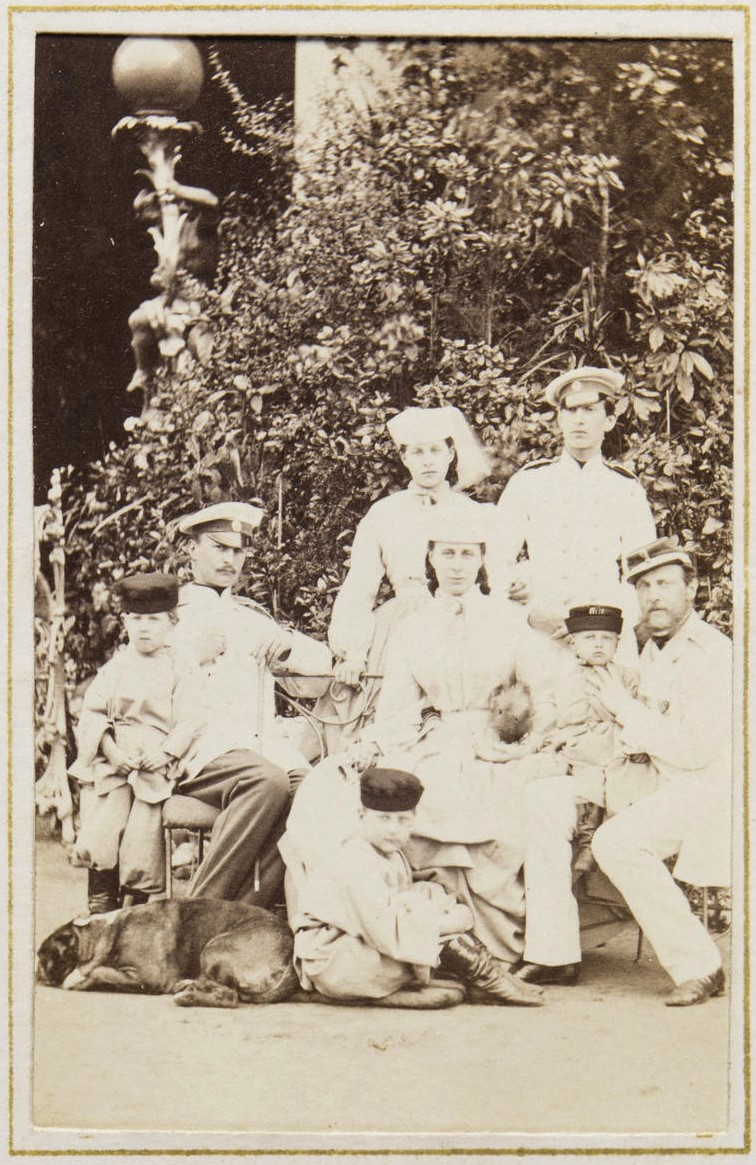 Grand Duke Konstantine Nikolaievich and his family